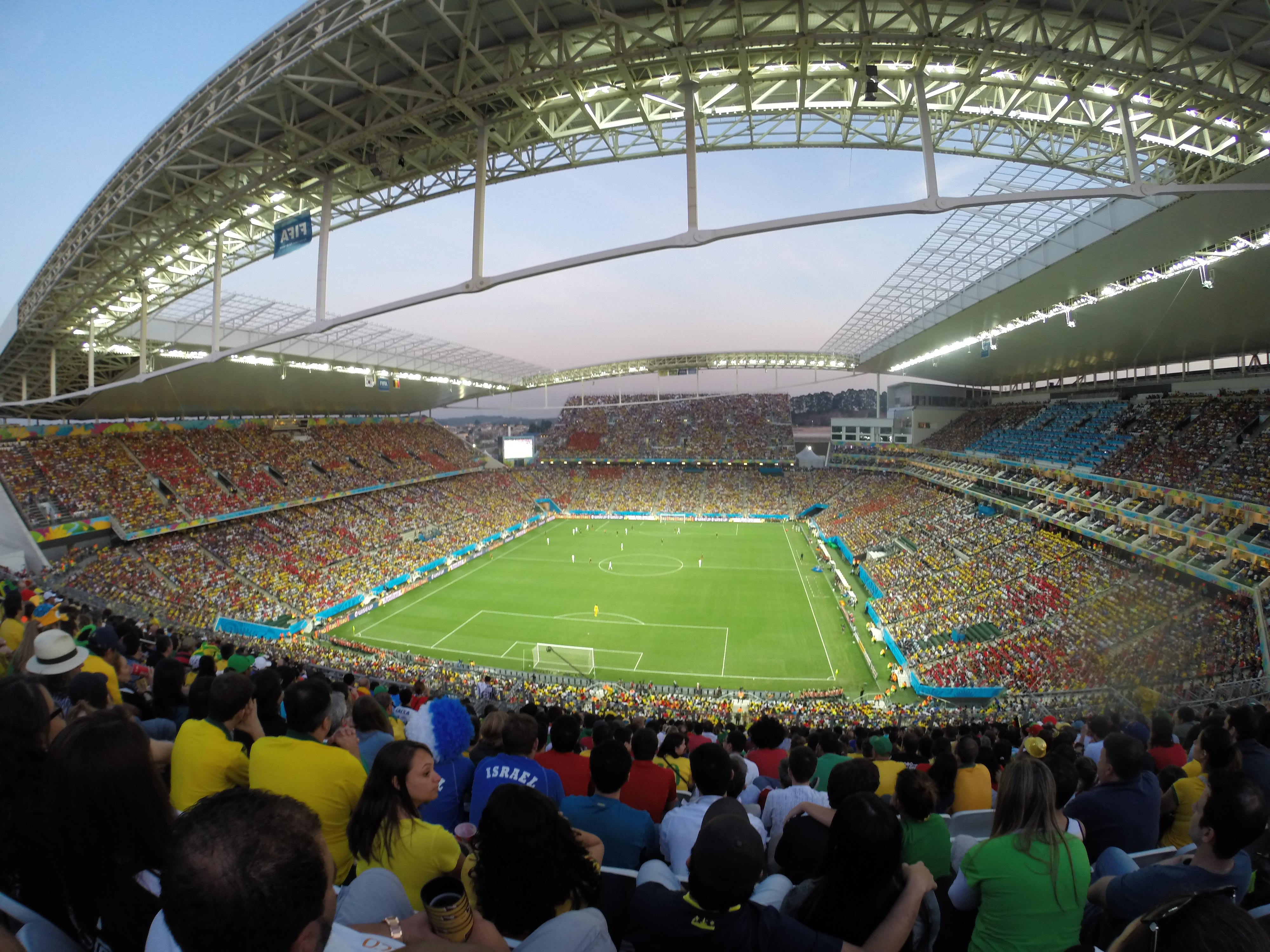 2014 FIFA World Cup Group H Belgium vs Korea Republic